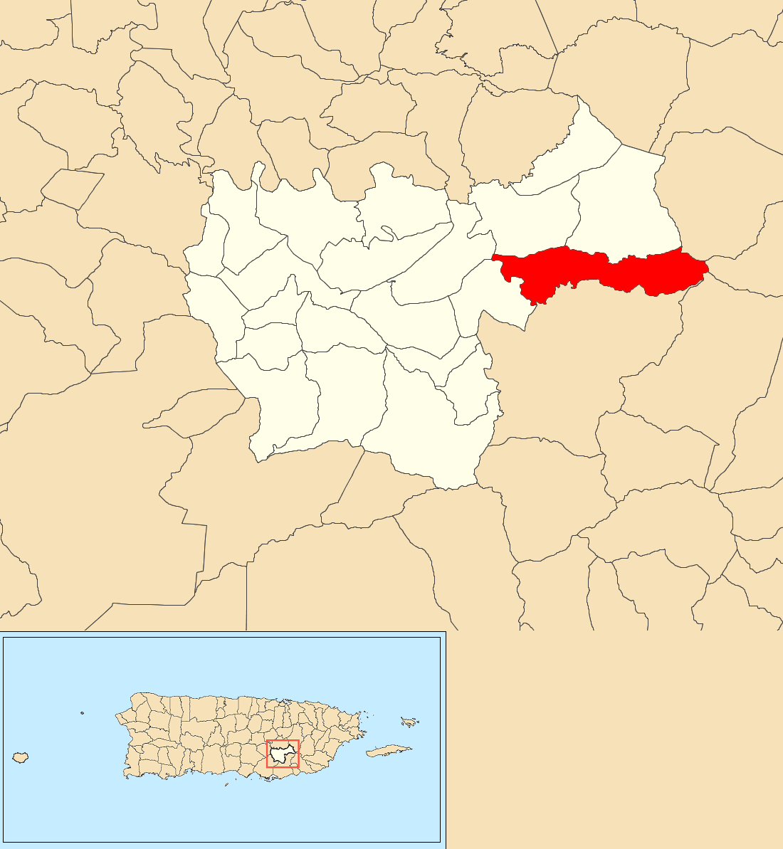 Farallón, Cayey, Puerto Rico locator map